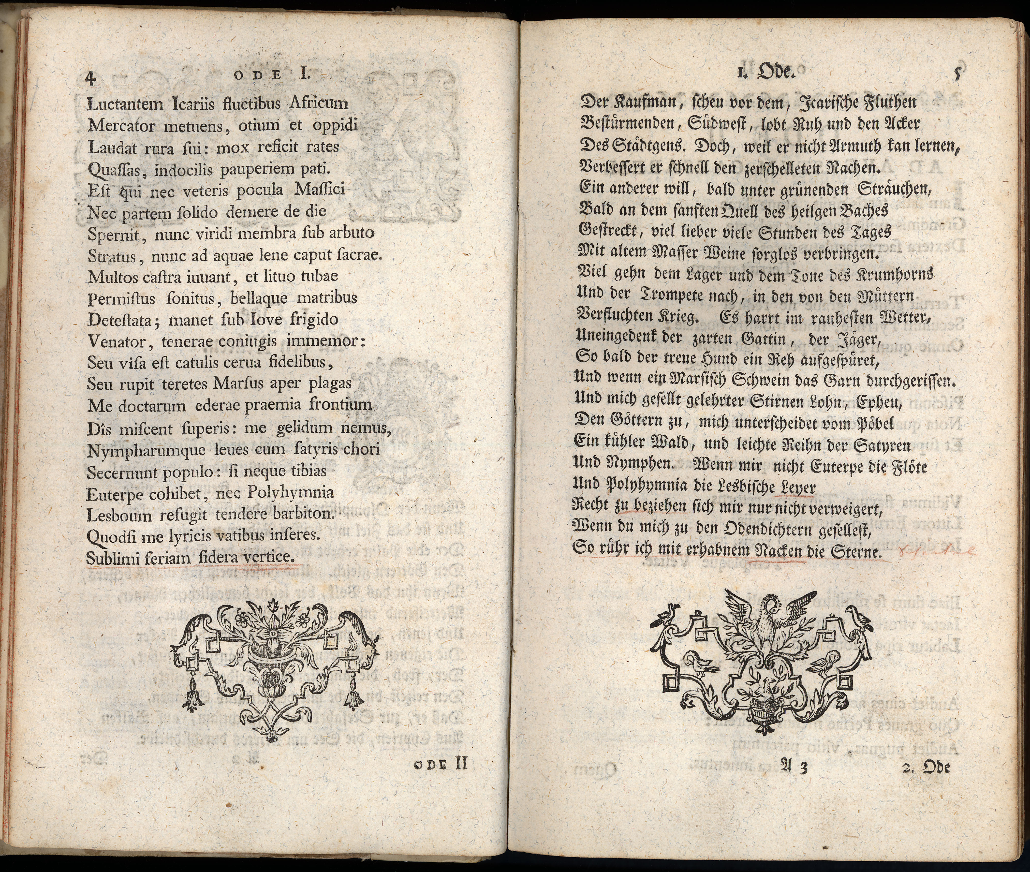 Page(s) 4-5 from the German translation of Horace’ Odes and Ars poetica by Samuel Gotthold Lange, Halle 1752. The complete original title is: Des Quintus Horatius Flaccus Oden fünf Bücher und von der Dichtkunst ein Buch[,] poetisch übersetzt von Samule Gotthold Langen [!]. Halle, bey Johann Justinus Gebauer. 1752. Lange’s translation is famous because it was harshly criticized by Lessing; some pages of the present copy show the annotations of a reader who has noted Lessing’s criticism in the margin. But Lange’s translation is also still noteworthy as one of the first ‘modern’ German translations which try to imitate the metre of the original and don’t add rhymes. Lange explains these guidelines in his preface. — The book’s first pages, including title, dedication and preface, have no pagination; I have paginated them here with Roman figures, beginning with the half title.